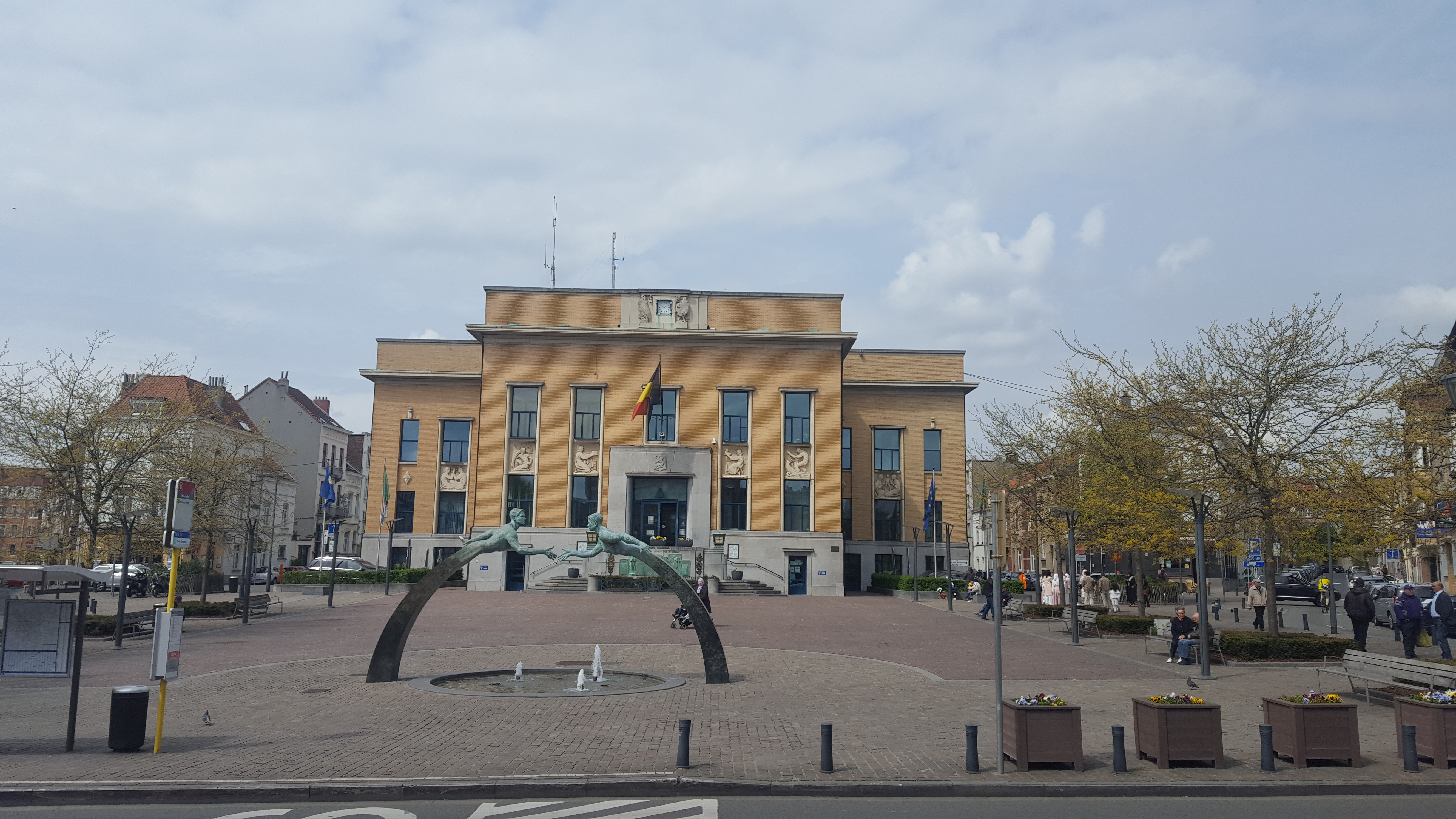 Town hall of Koekelberg, Belgium